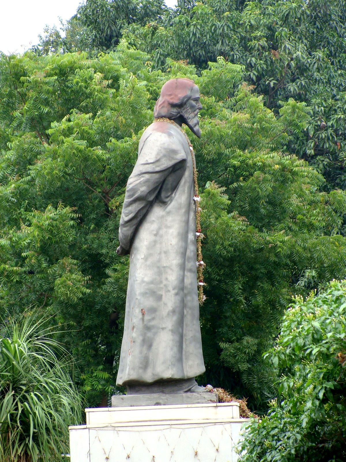 Statue of Rabindra Nath Tagore, B.N.R Island